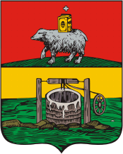 Solikamsk (Perm krai), coat of arms (1783)